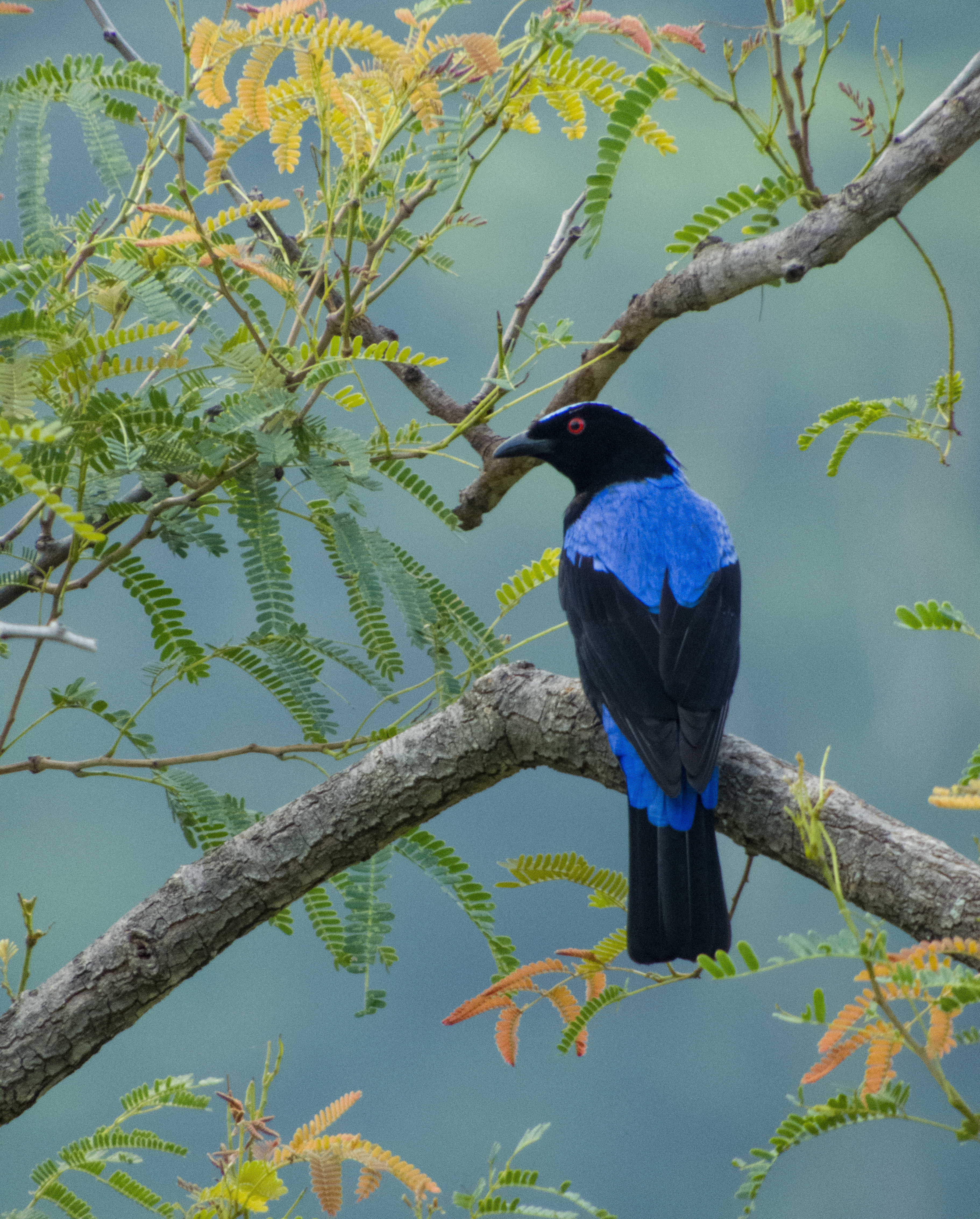 A male asian fairy bluebird sitting in a branch, photographed from Marayoor, Kerala, India